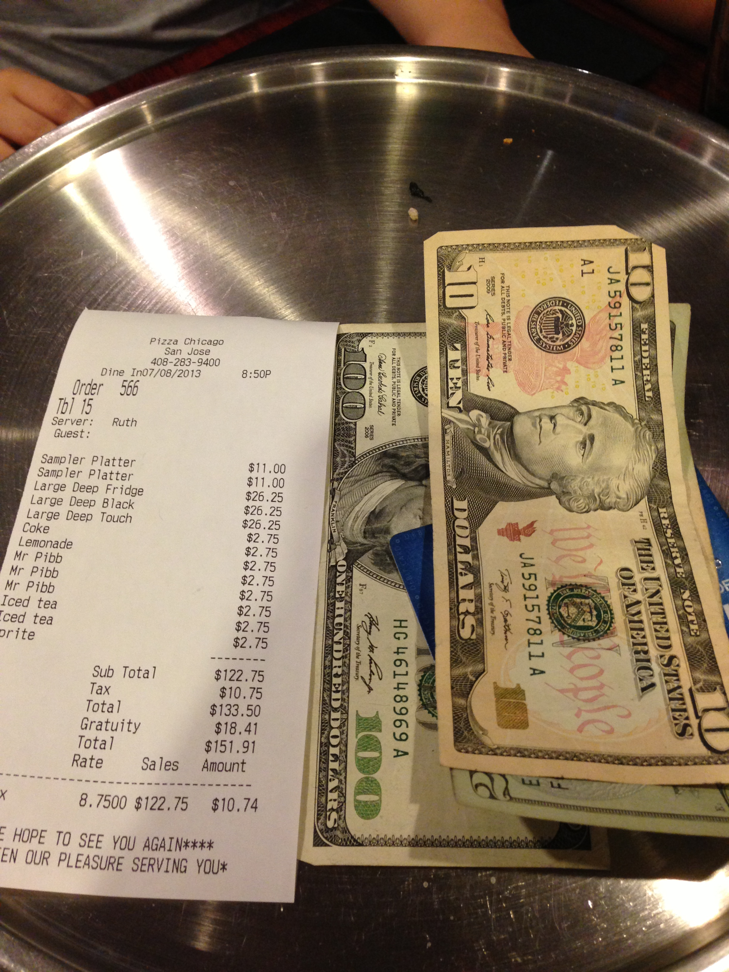 Bills and receipts